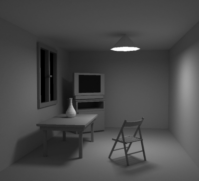 Radiosity with Monte carlo